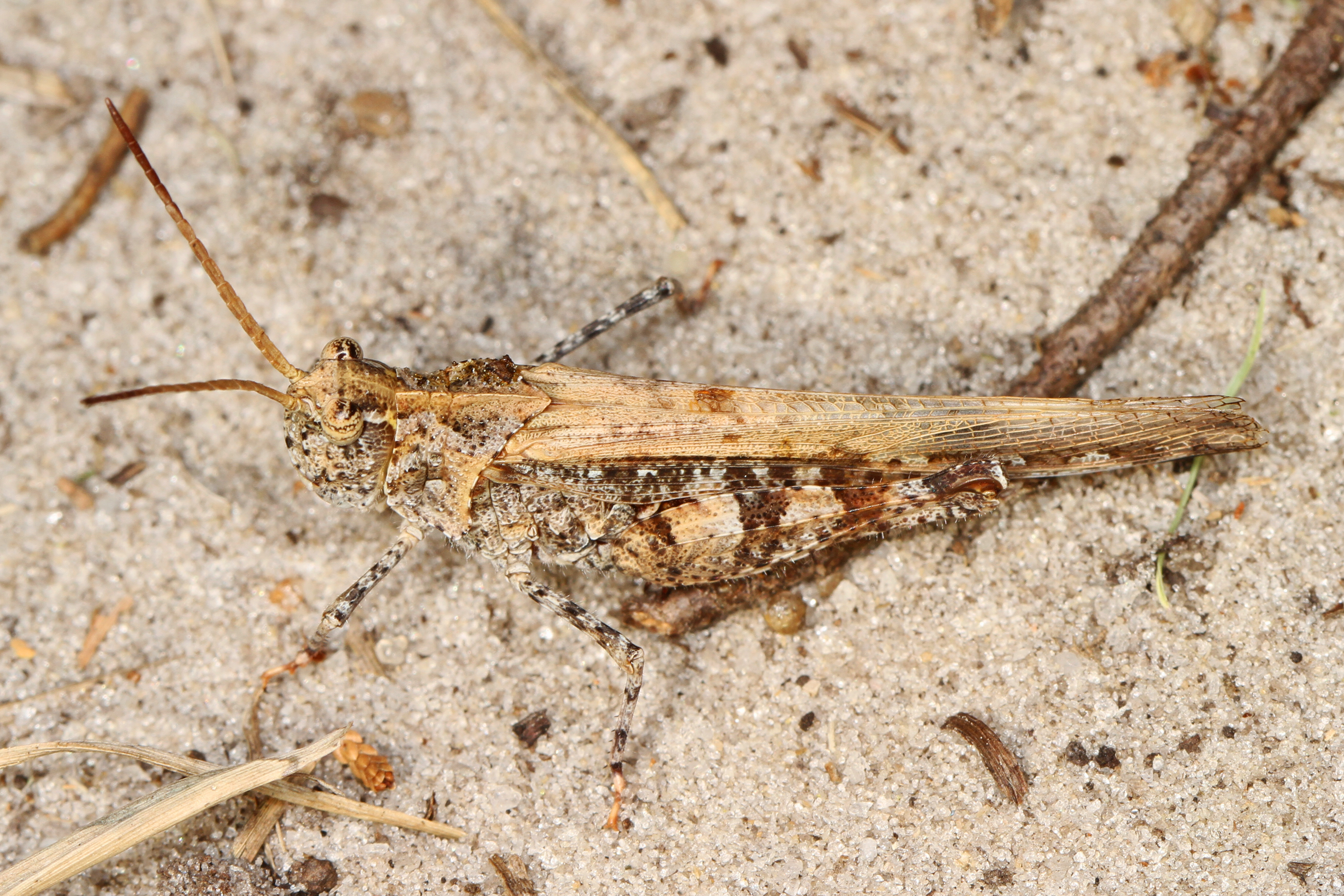 Long-horn Band-winged Grasshopper - Psinidia fenestralis, Sapelo Island, Georgia.